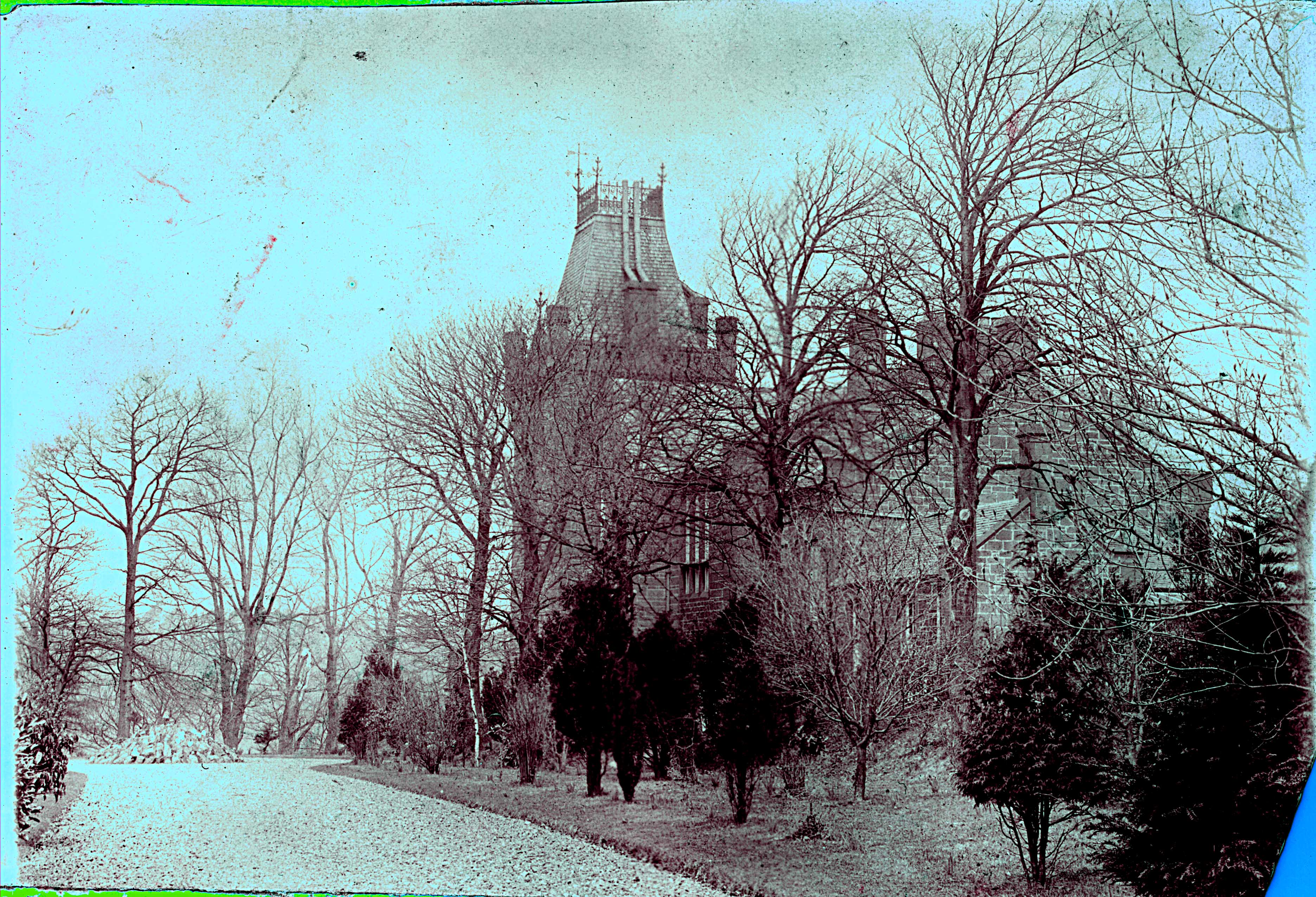 Dalmore House, near Stair, East Ayrshire, Scotland